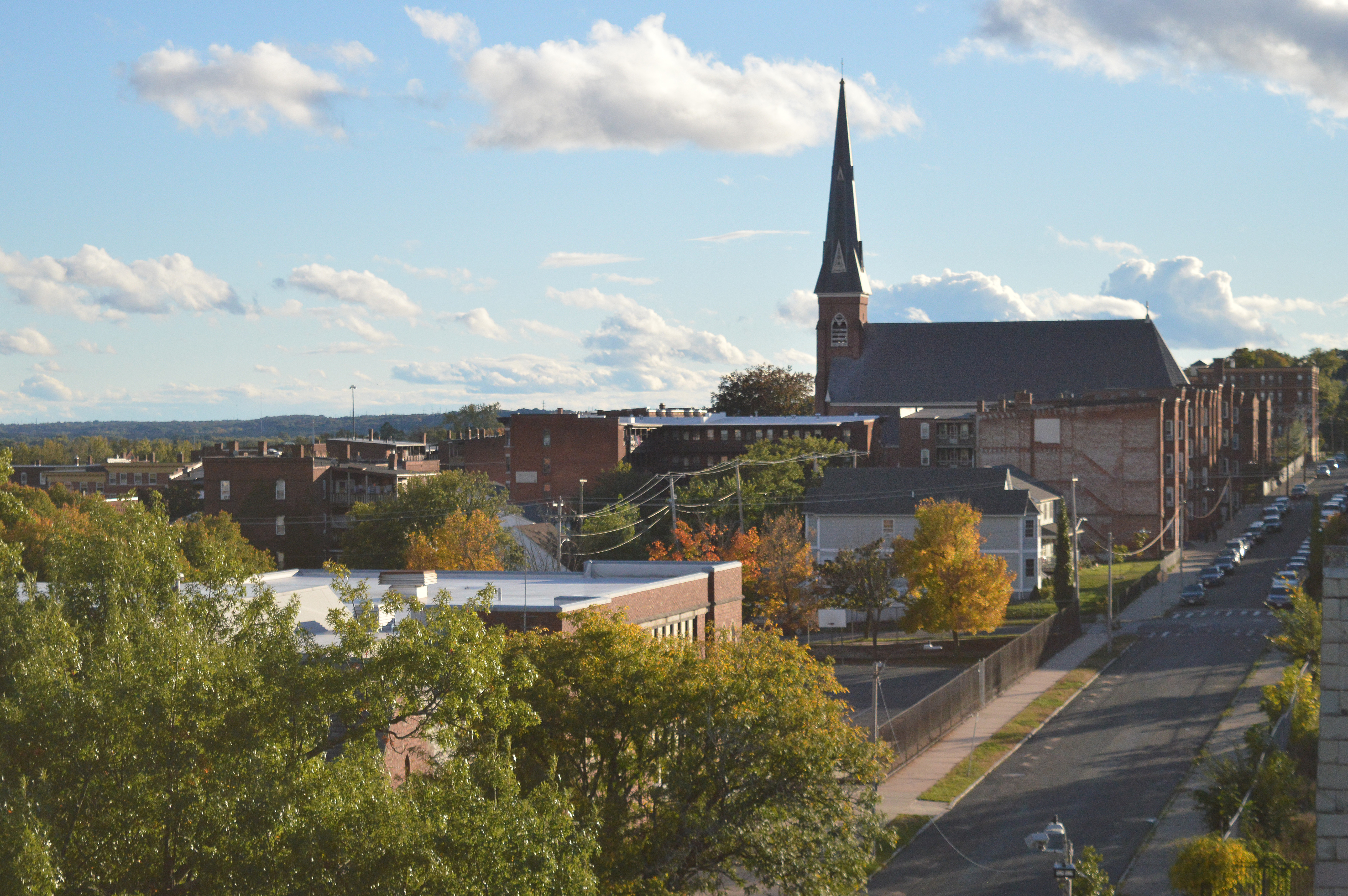 The skyline of the Churchill neighborhood of Holyoke, Massachusetts, with the grand steeple of Our Lady of Guadeloupe.